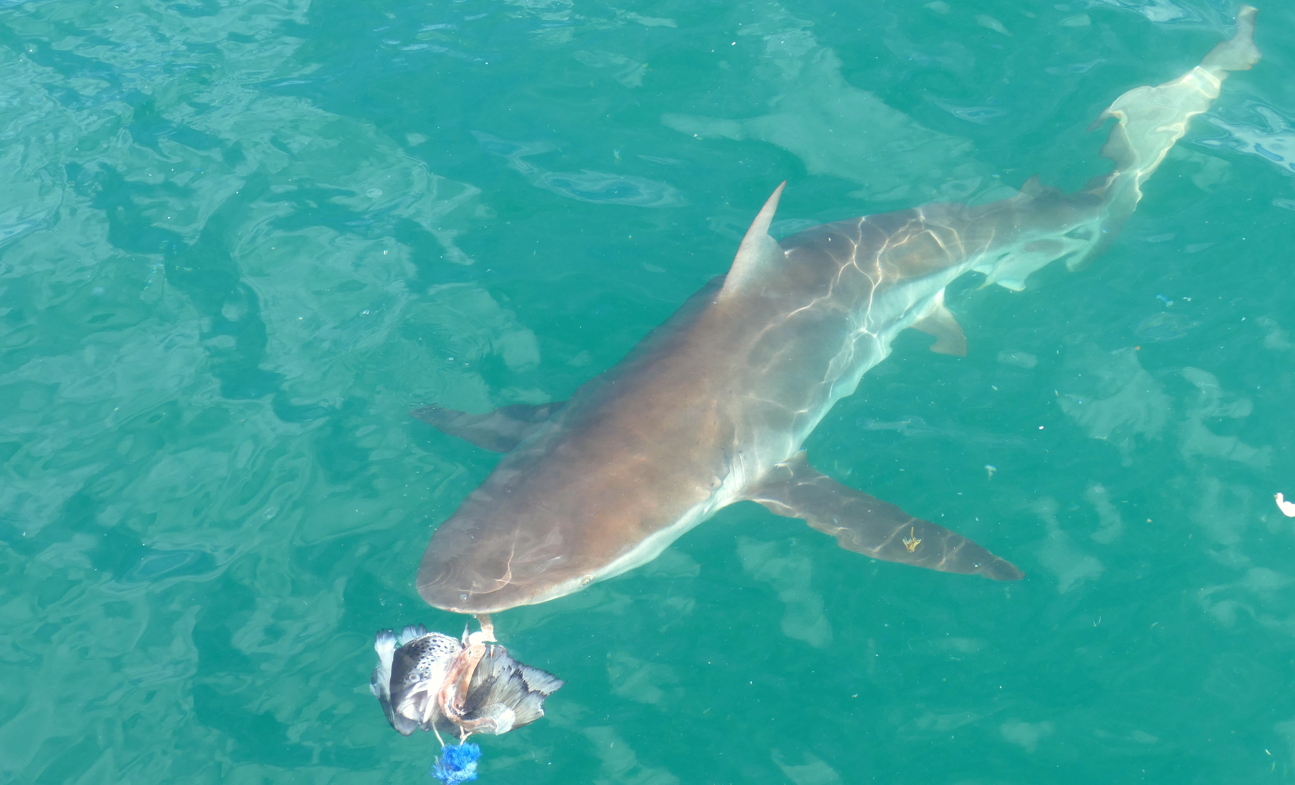 Shark Cage Diving, Gansbaai, Western Cape, SOUTH AFRICA